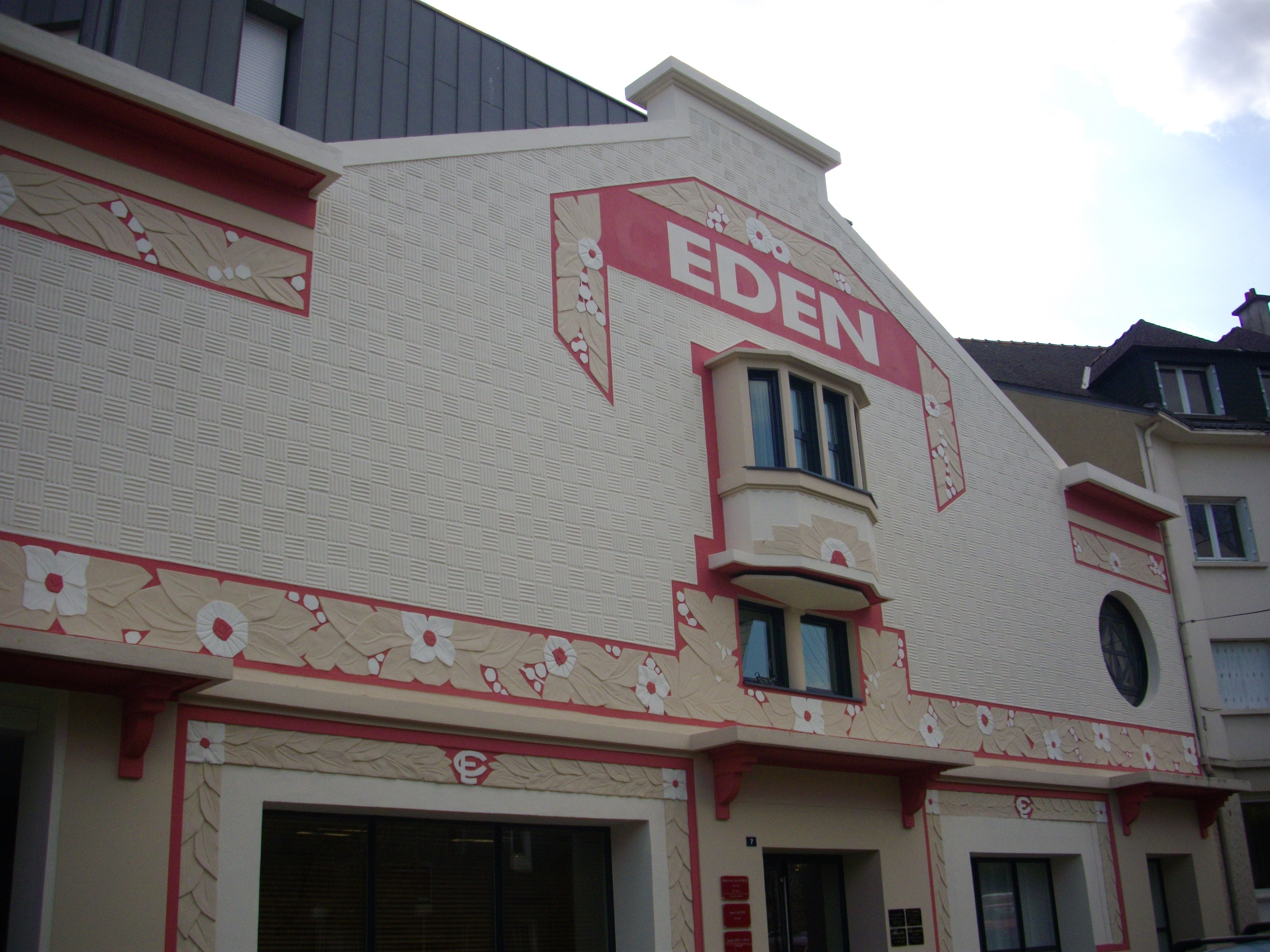 Front of the former cinema "L'Eden" in Vannes (Morbihan, France)